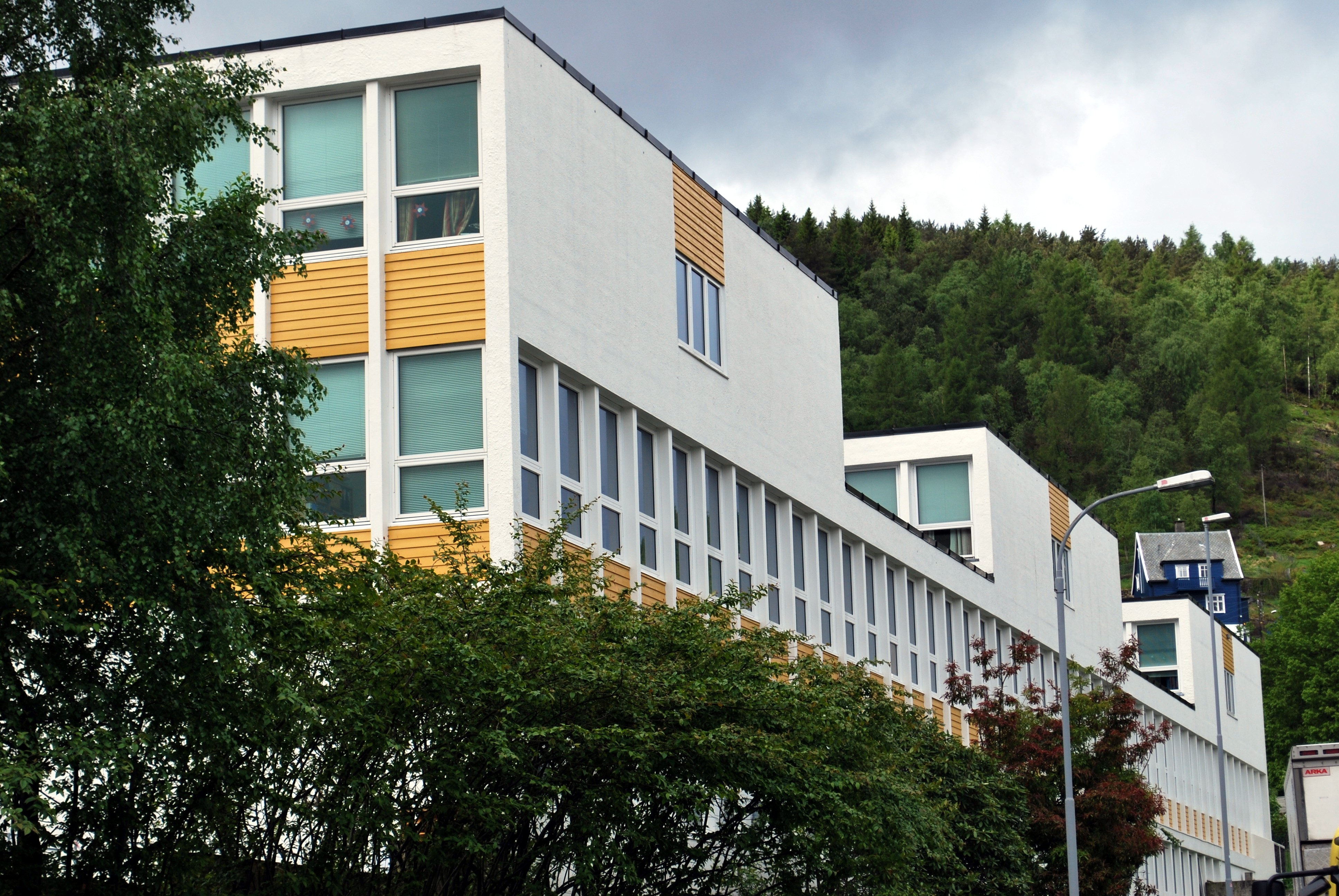 Damsgård skole at Damsgård in Bergen.